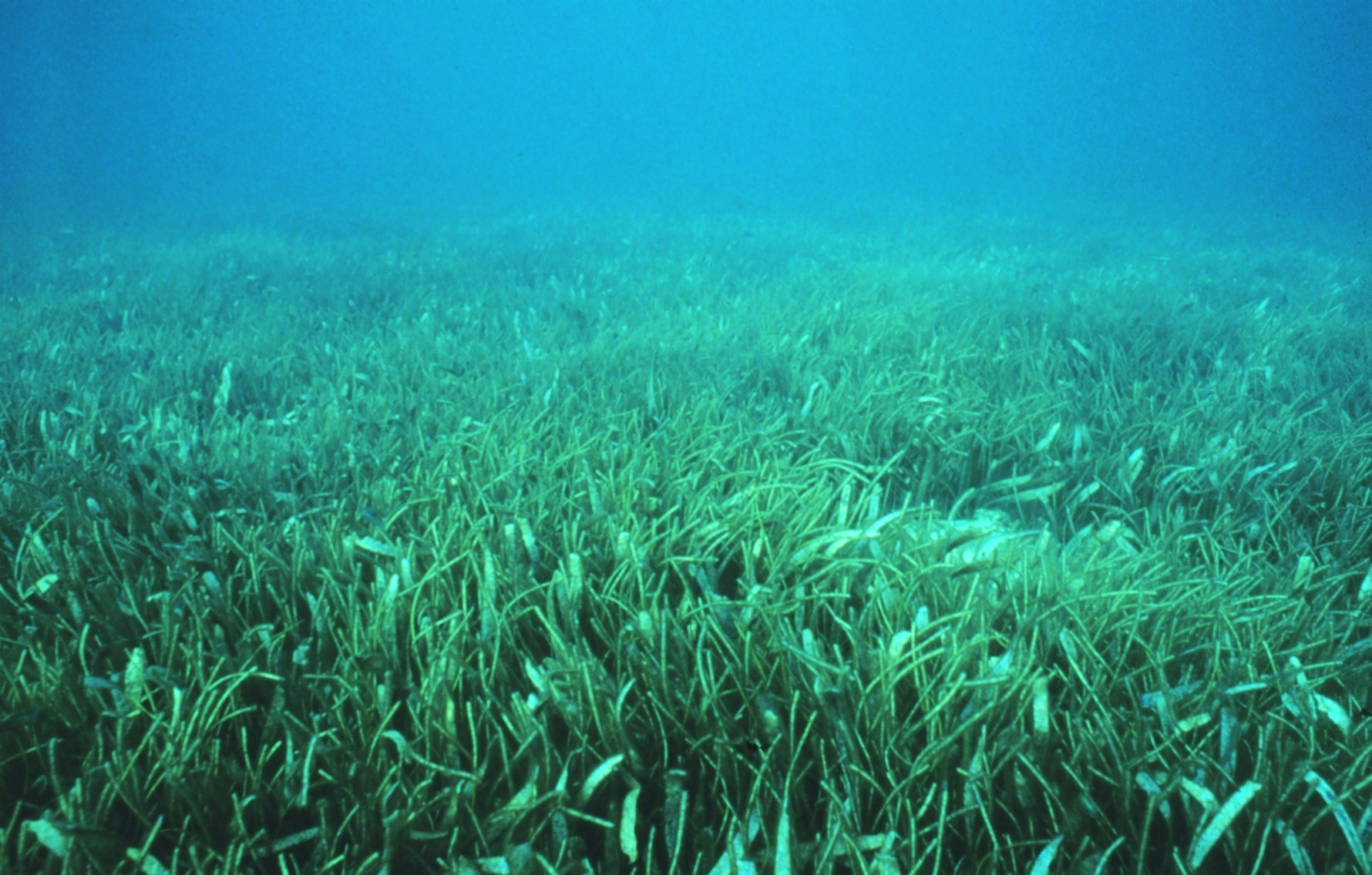 A seagrass meadow. Florida Keys National Marine Sanctuary.